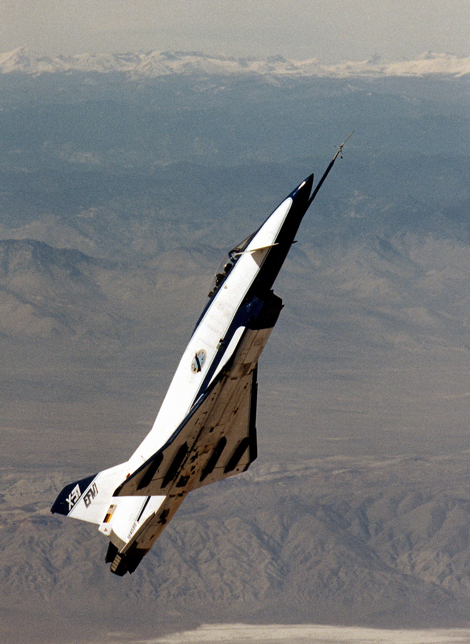 The X-31 aircraft on a research mission from NASA's Dryden Flight Research Facility, Edwards, California, is flying nearly perpendicular to the flight path while performing the Herbst maneuver. Effectively using the entire airframe as a speed brake and using the aircraft's unique thrust vectoring system to maintain control, the pilot rapidly rolls the aircraft to reverse the direction of flight, completing the maneuver with acceleration back to high speed in the opposite direction. This type of turning capability could reduce the turning time of a fighter aircraft by 30 percent. The Herbst maneuver was first conducted in an X-31 on April 29, 1993, in the No. 2 aircraft by German test pilot Karl-Heinz Lang.